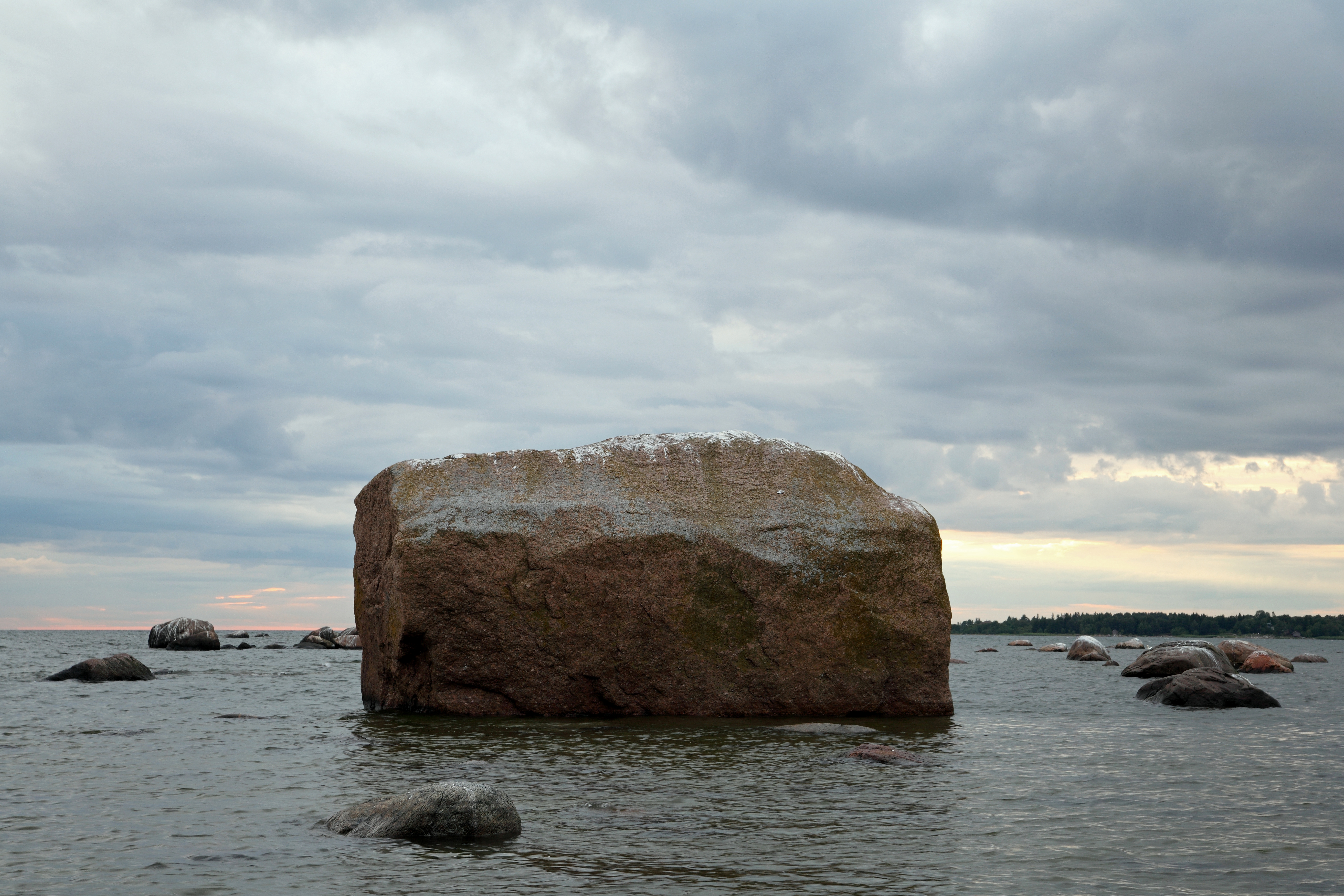 Glacial erratic Odakivi in Pärispea village, Estonia.